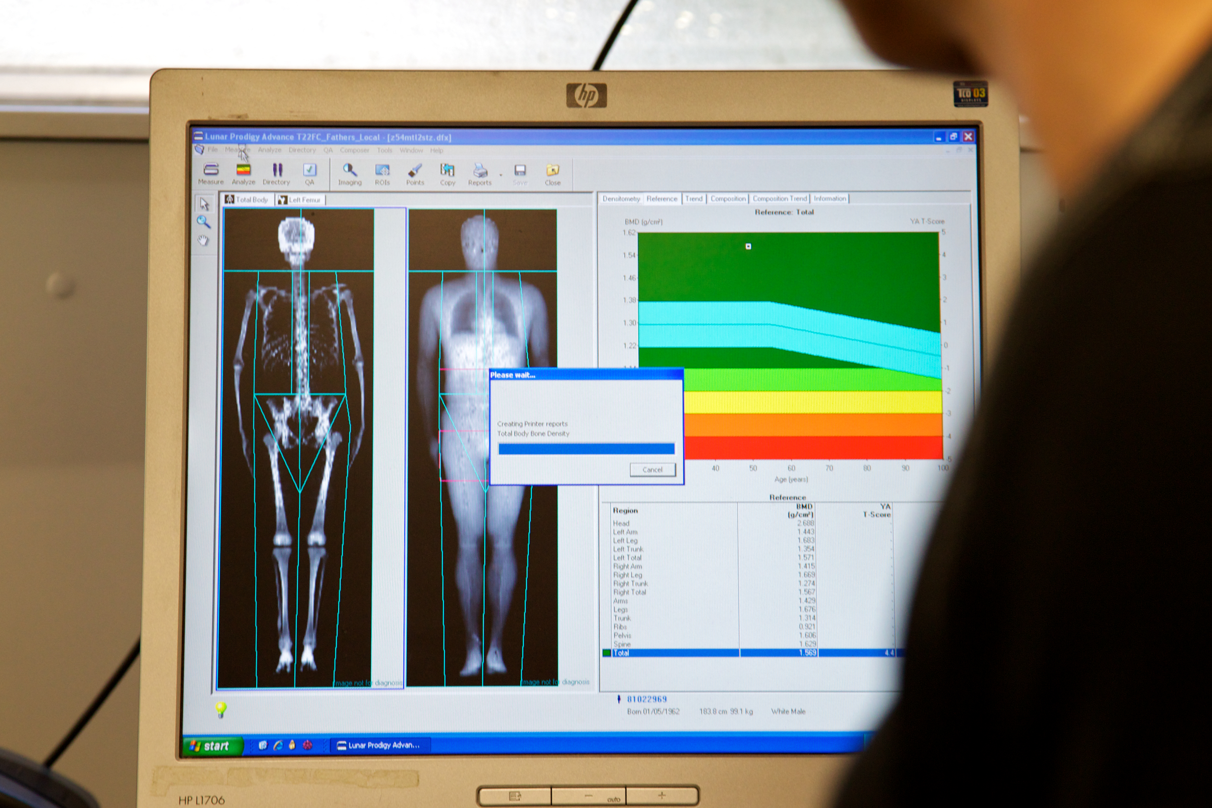 A Dual-energy X-ray absorptiometry (DEXA) scan being carried out at Avon Longitudinal Study of Parents and Children (ALSPAC) in Bristol, UK. A staff member (face not shown) looks at a computer screen on which a full-body scan is in progress.